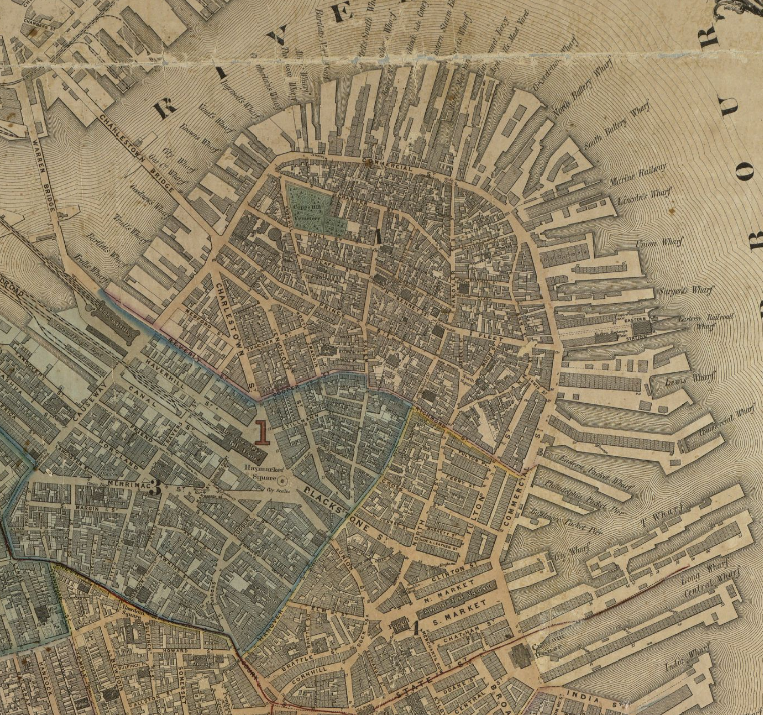 Detail of 1852 map of Boston by J. Slatter, showing North End and vicinity. Published by Dripps, M. (Matthew).